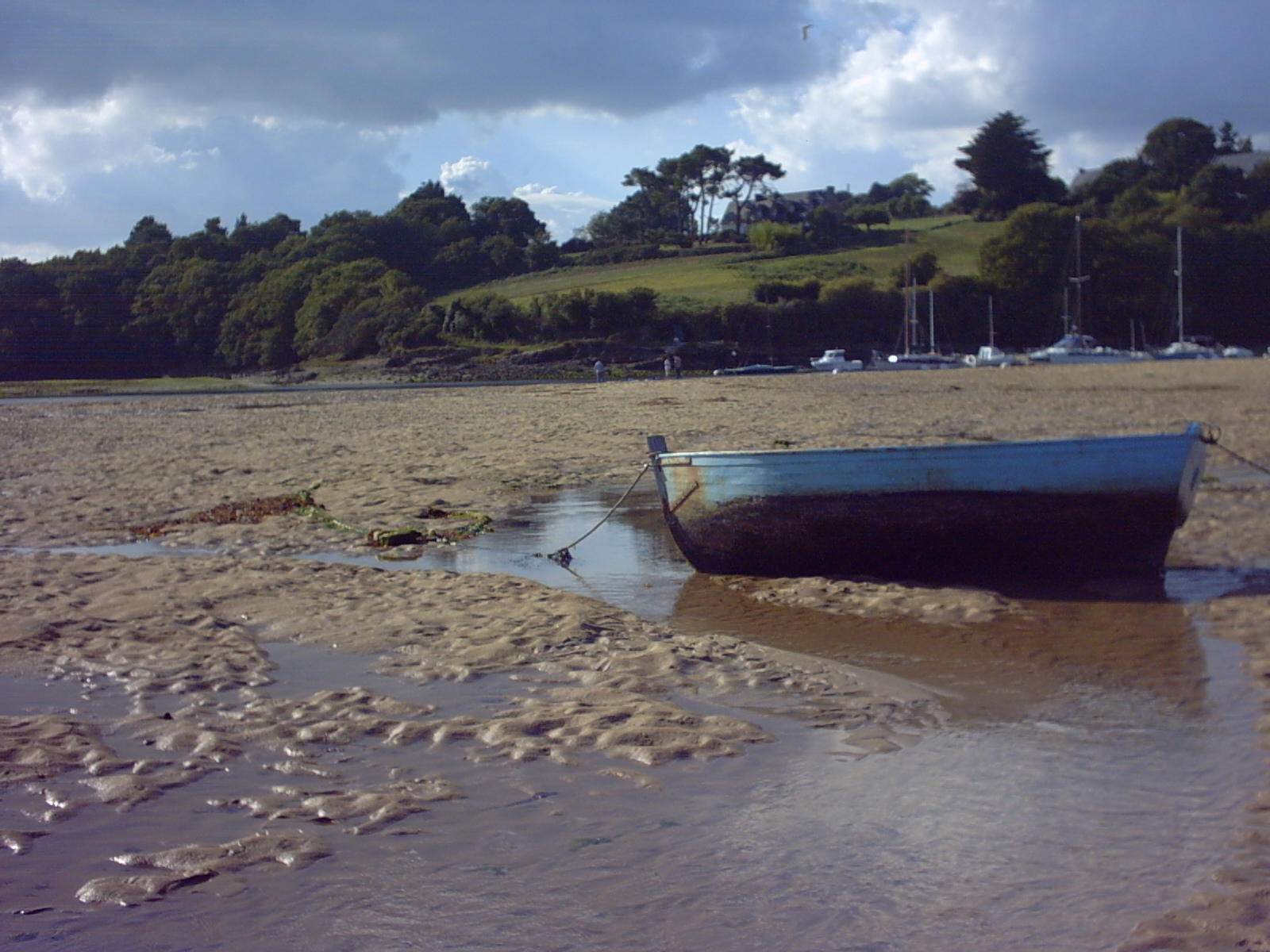 Laïta River estuary at Guidel